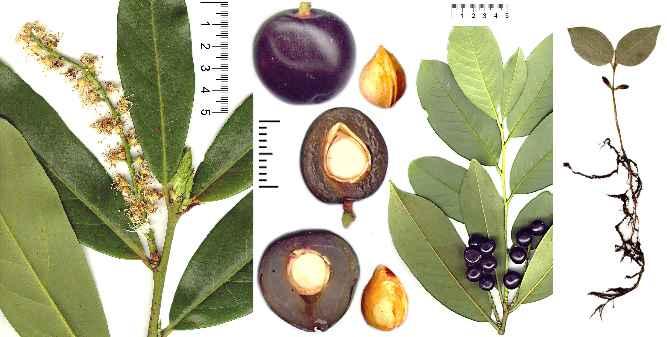 Prunus laurocerasus: leaves, inflorescence, fruits, and seedling